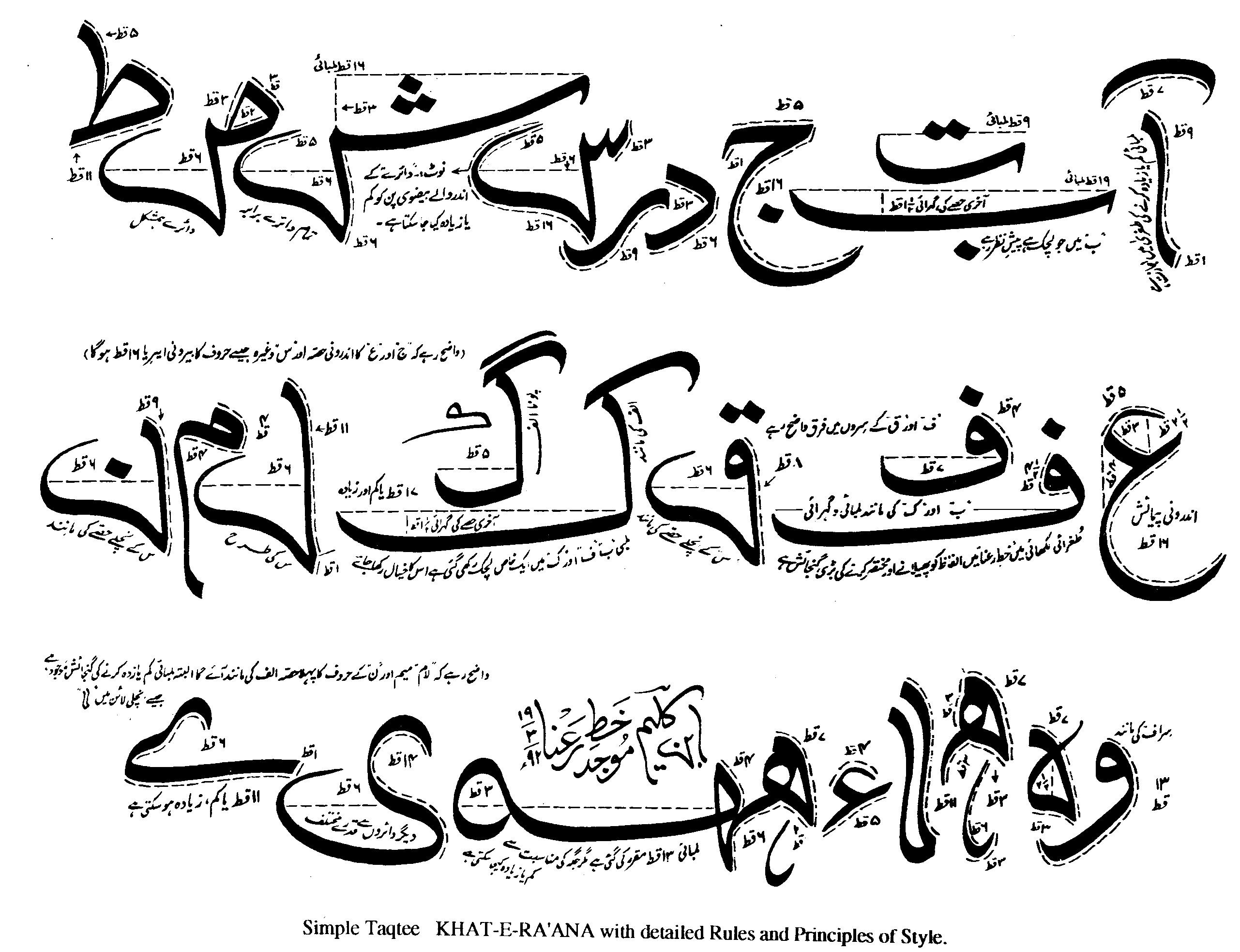 A sample/basic takhtee of Calligraphy Script (Khate) Ra'ana describing its rules & principles.